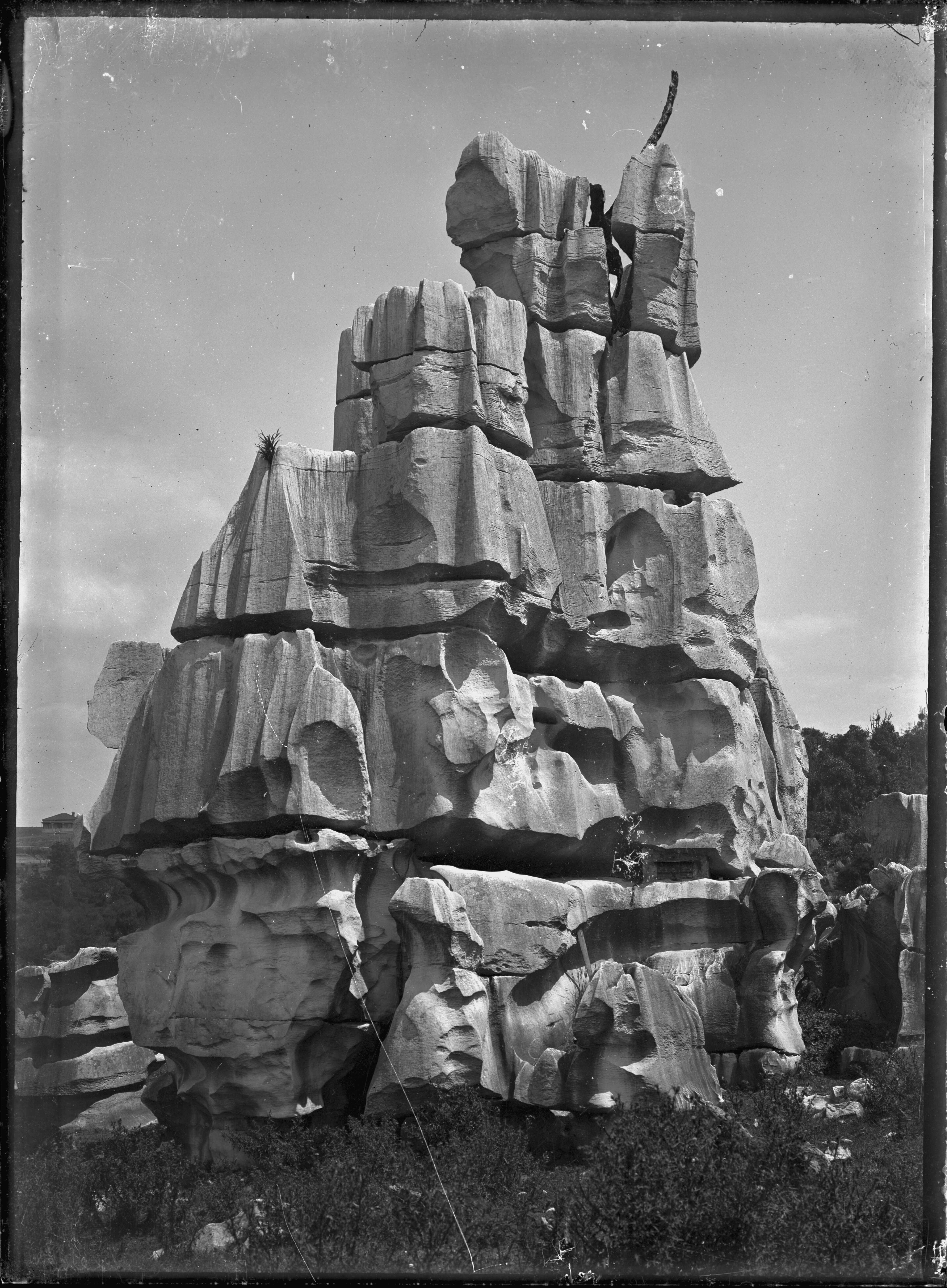 View of Cathedral Rock (weathered limestone rock formation) at Waro. Photograph taken by Albert Percy Godber in 1923.